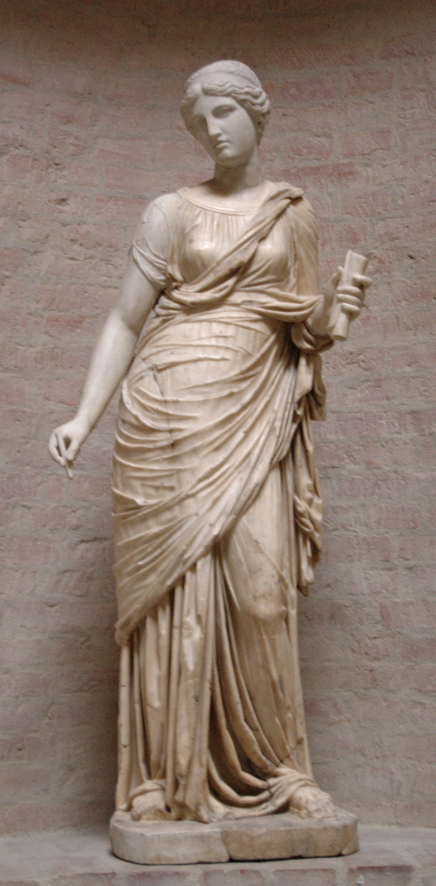 Statue of a Muse. Roman copy after a Greek muses group from ca. 130 CE. Completed by Bertel Thorvaldsen in Rome in 1812.